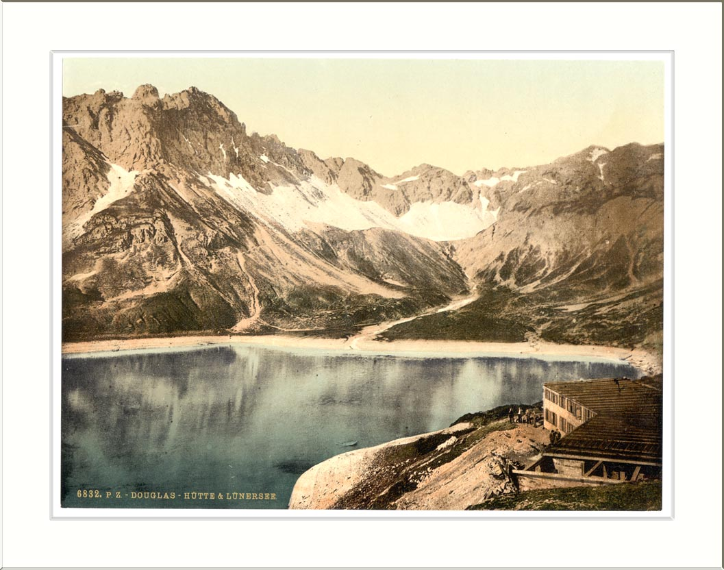 Vorarlberg Douglas Hut and Lunersee Tyrol Austro-Hungary